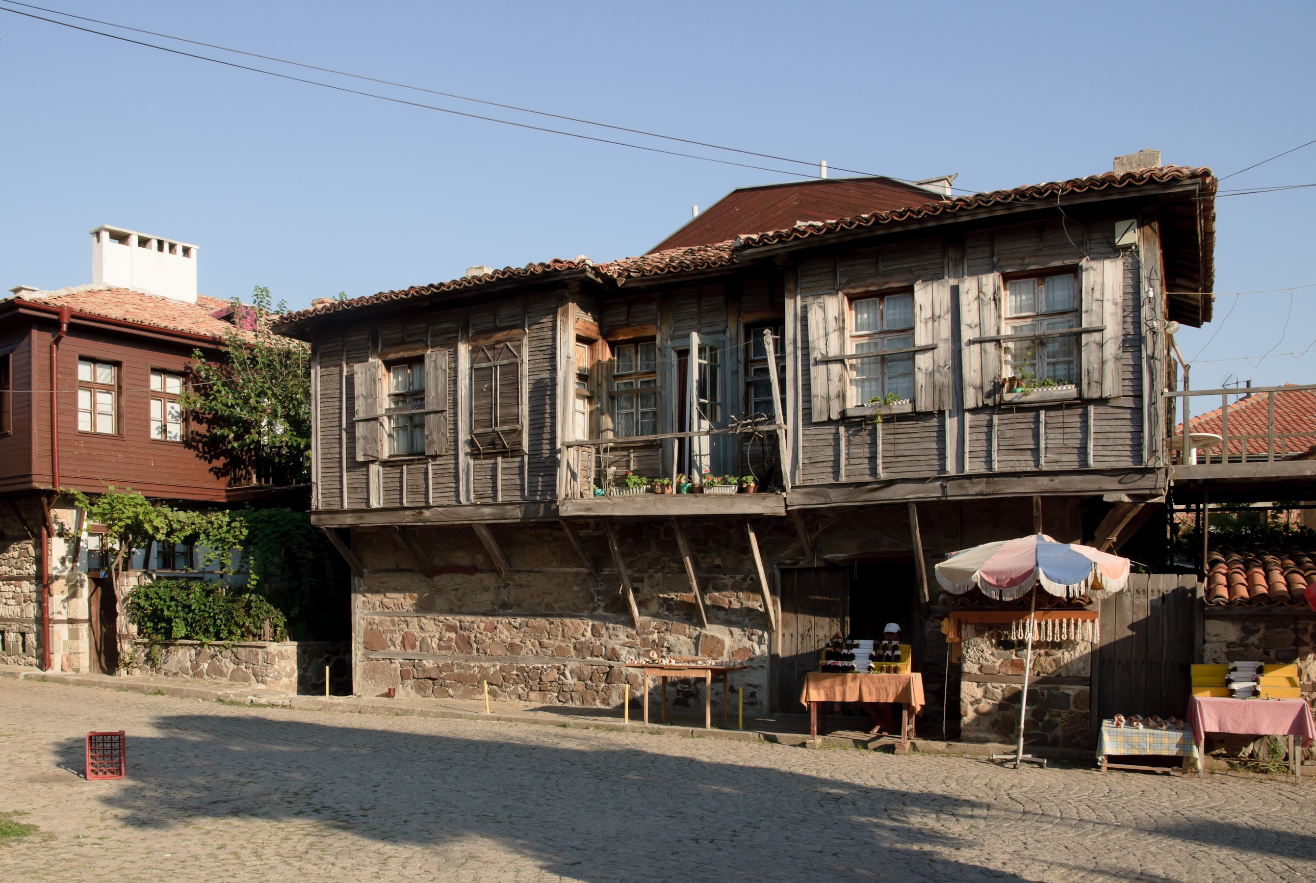 A house in the old town of Sozopol, Bulgaria.